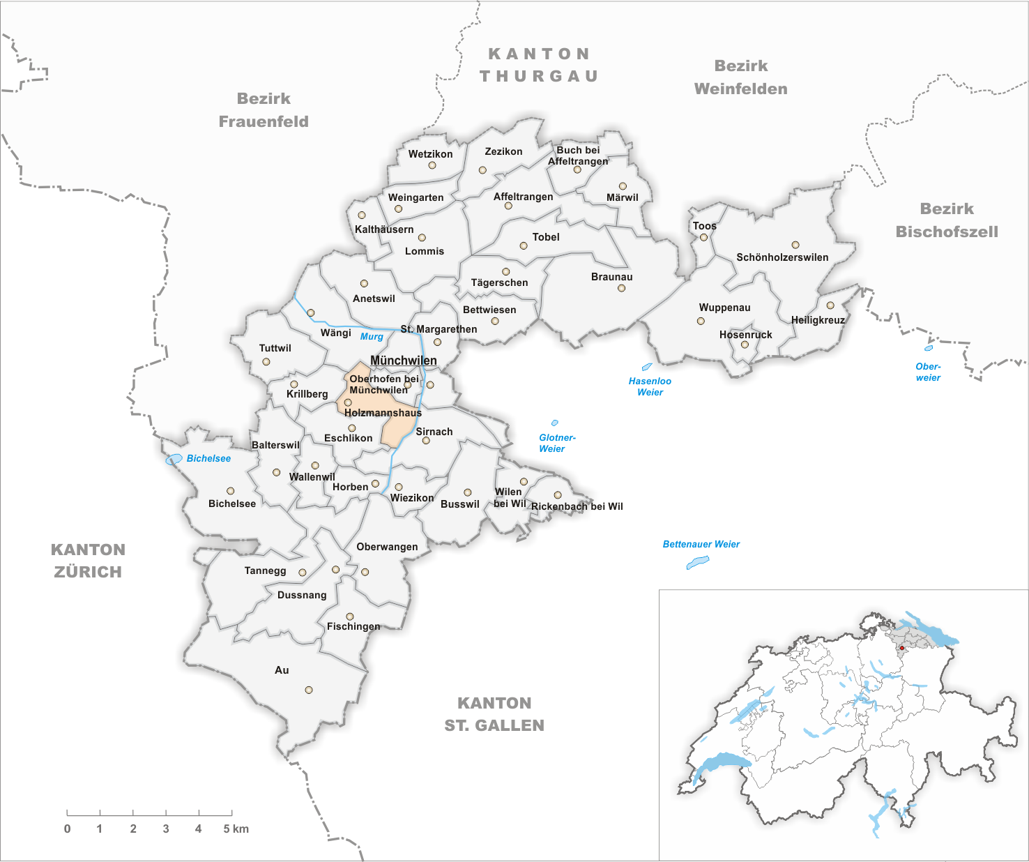 Municipality Holzmannshaus